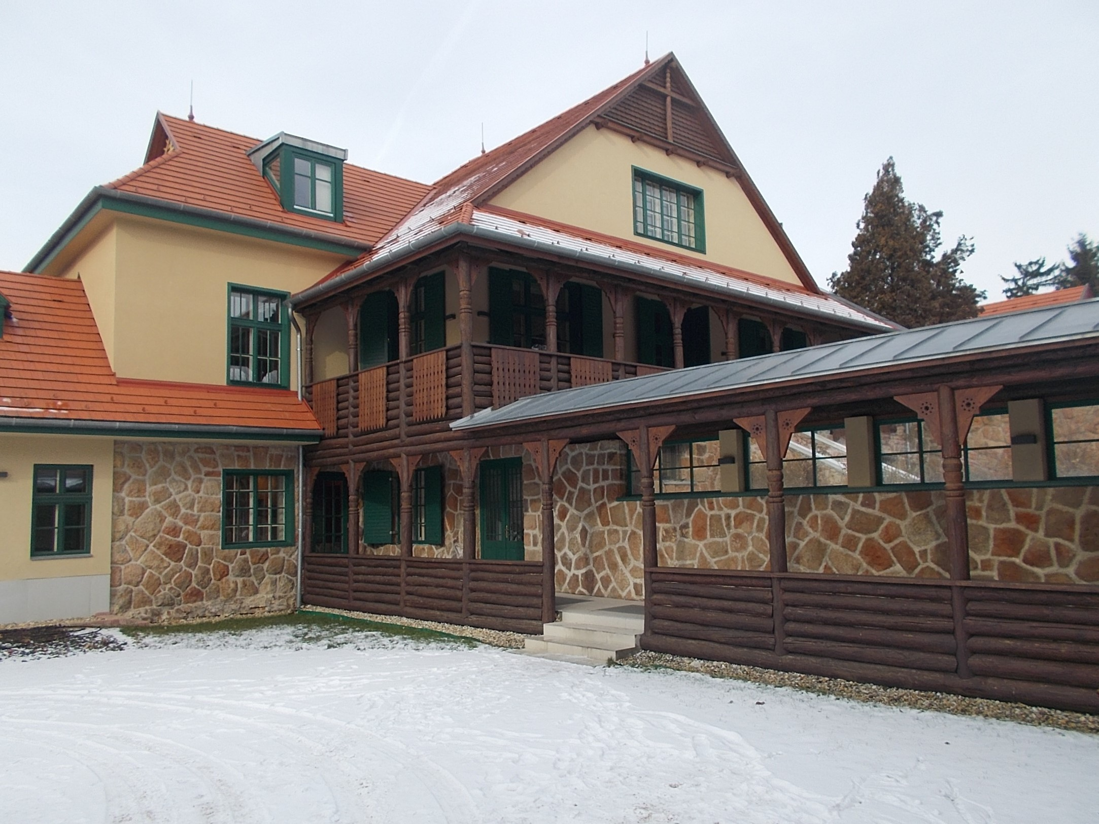 Klebelsberg Mansion. - 12-14 Templom utca, Pesthidegkút-Ófalu neighbourhood, 2nd district of Budapest.